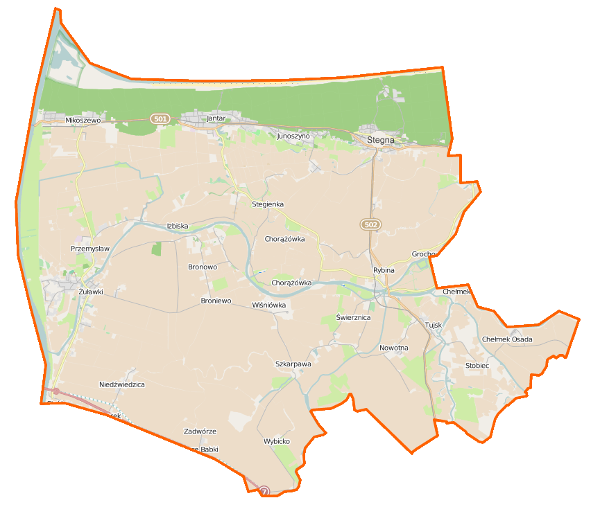 Map of Gmina Stegna, Poland This map of Stegna (gmina) was created from OpenStreetMap project data, collected by the community. This map may be incomplete, and may contain errors. Don't rely solely on it for navigation.